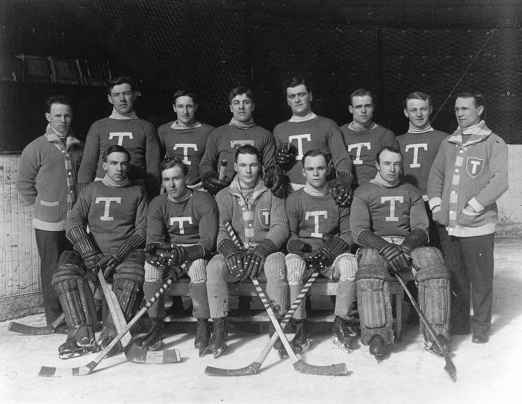 Photograph - The Torontos, Stanley Cup champions 1913-14, Silver salts on glass - Gelatin dry plate process Back row, left to right: Dick Carroll, Con Corbeau, Roy McGiffin, Jack Marshall, George McNamara, Jack Walker, Cully Wilson, Frank Carroll.Front row, left to right: Claude Wilson, Frank Foyston, Scotty Davidson, Harry Cameron, Harry "Hap" Holmes.